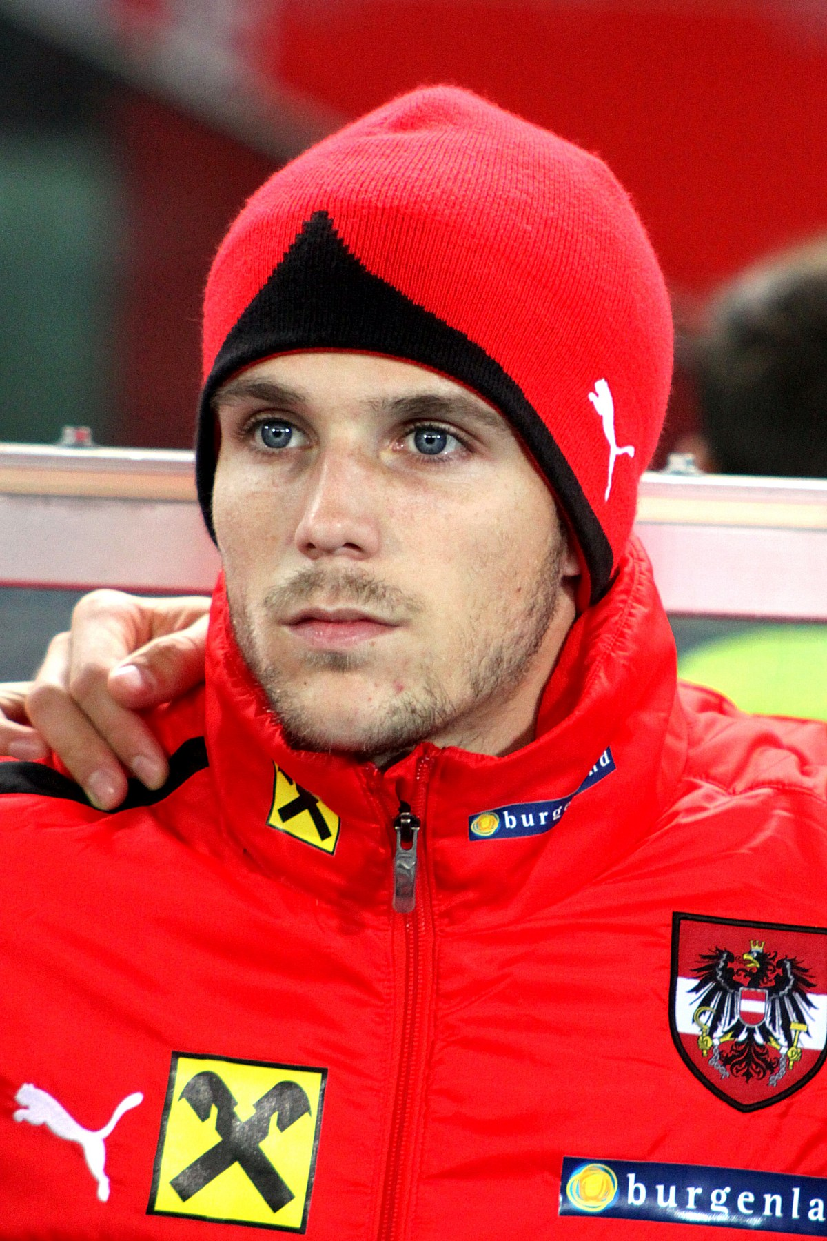 Friendly-match Austria vs. USA (1:0) in the Ernst-Happel-Stadion in Vienna at 2013-03-22. – The photo shows Philipp Zulechner (Austria).